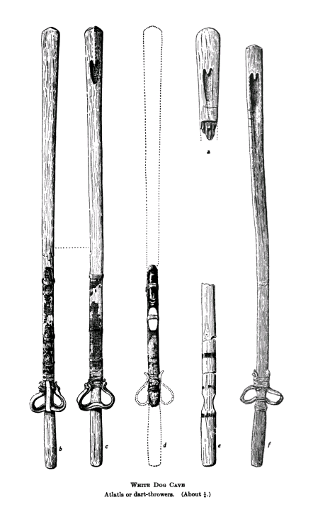 19th century knowledge indian lore atlatl spear thrower